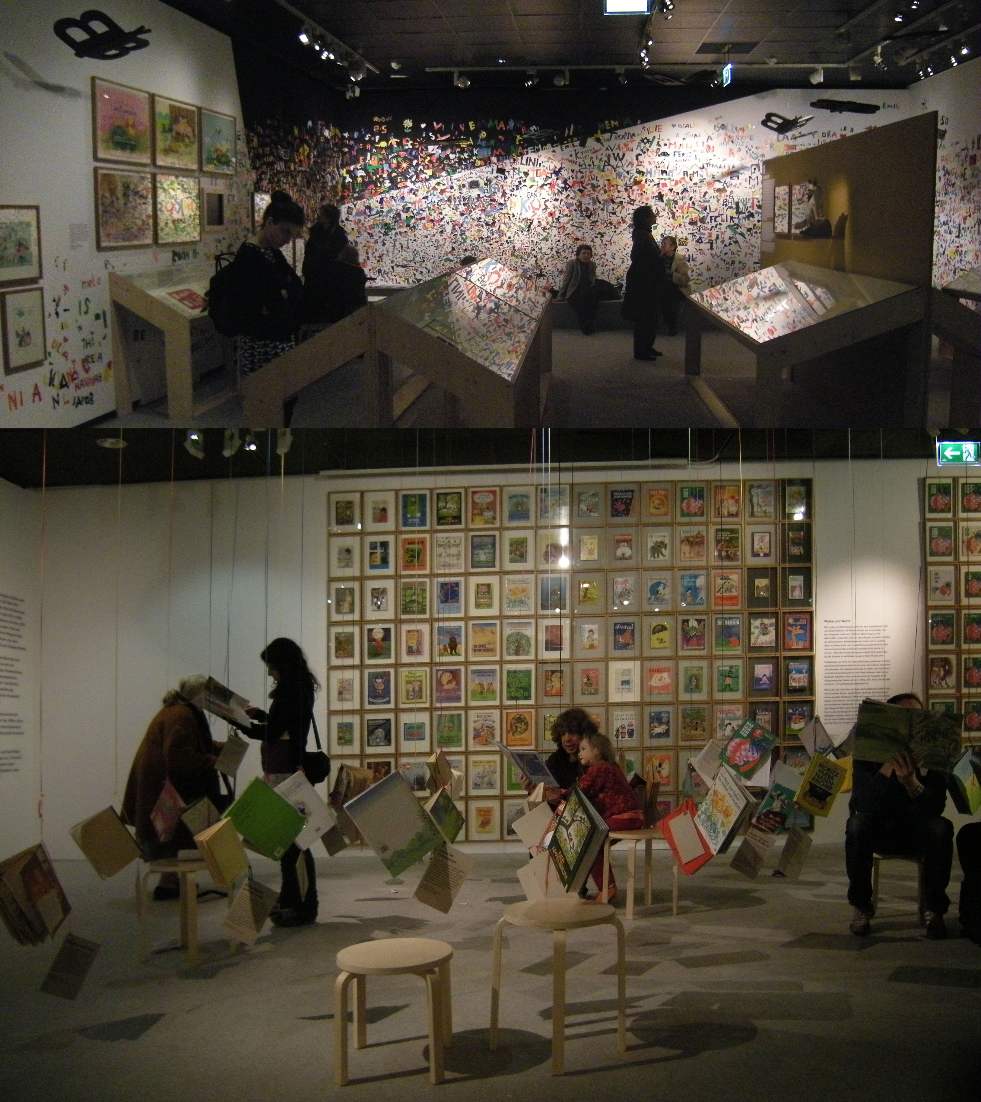 'Mira Lobe' exhibit 2014-2015, Wienmuseum. The upper frame gives an impression on Lobe's sparkling texts. Lower frame: In front of 112 covers of Lobe's books, some father reads from one of them, in order to tease his daughter. Please note that 'quite-a-lot' of other M._Lobe's books, at the time of thisone shot, were 'just hangin' around' ;)